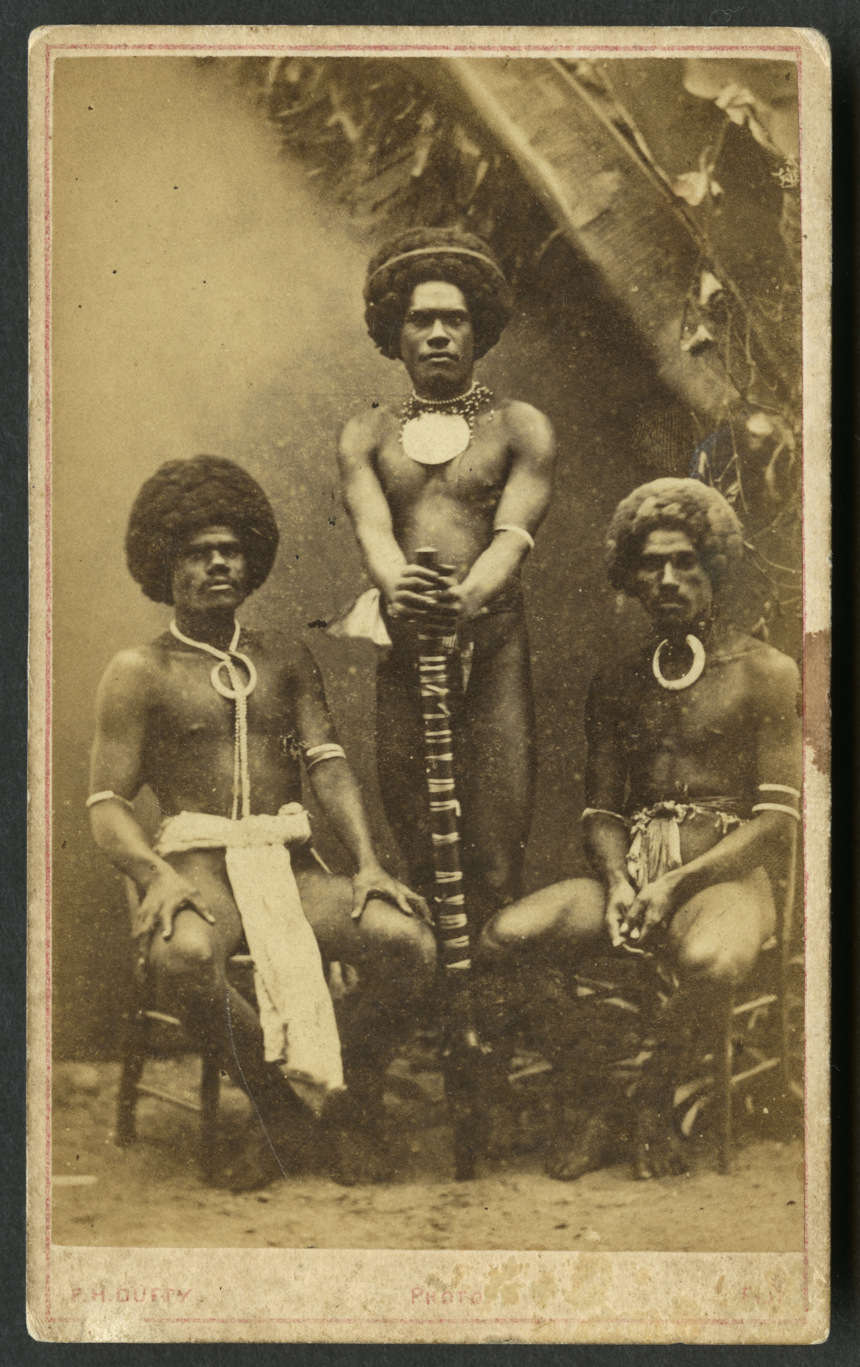 Portrait of three kai colo, carte de visite. Photograph by Francis Herbert Dufty, ca. 1873. C. D. V. Collection, Mitchell Library , State Library of New South Wales, Sydney.